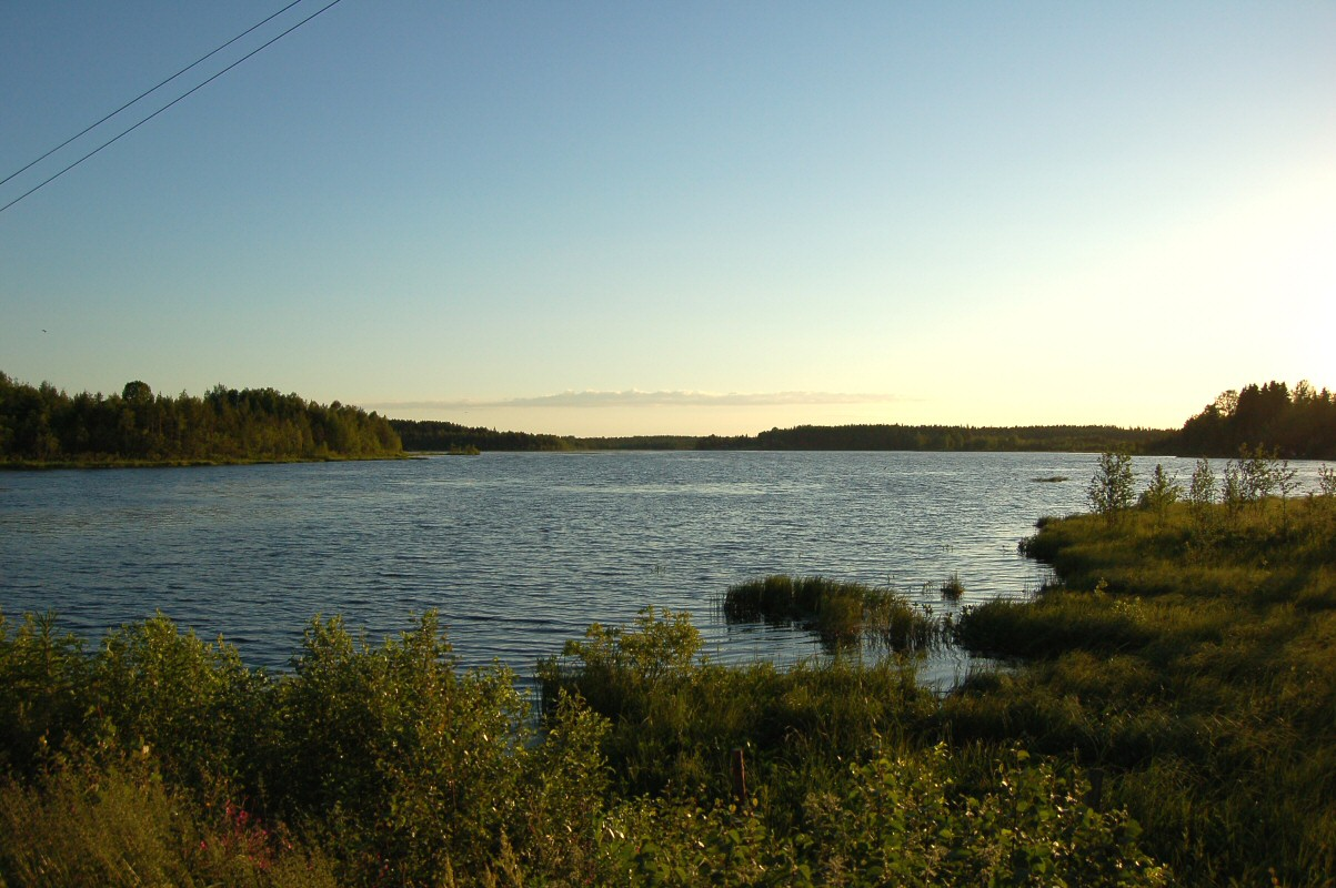 The northern basin of Jolosjärvi (Lake Jolos) in Jolos, Ylikiiminki, Finland.